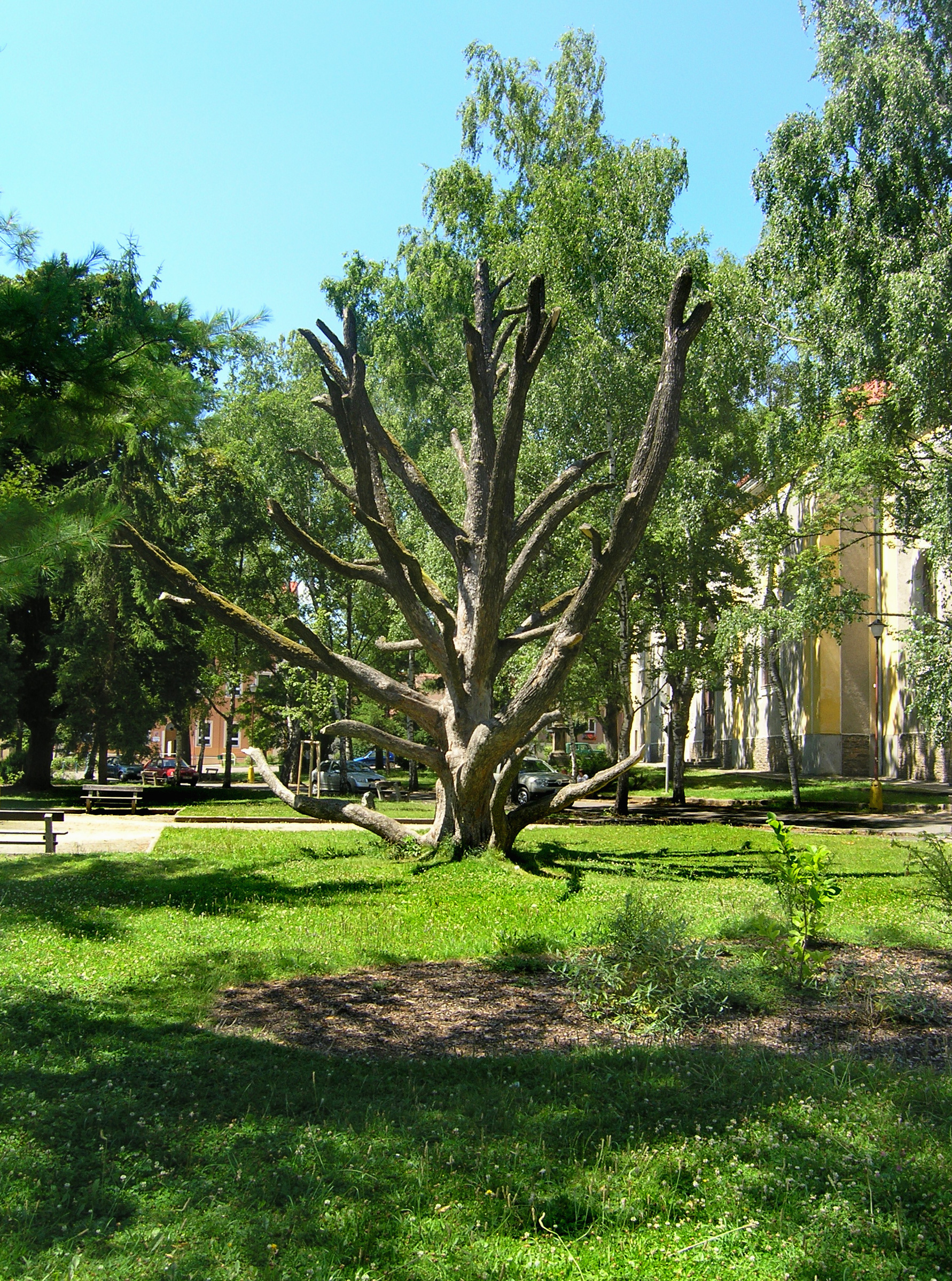 Turkish Hazel (Corylus colurna) in Ronov nad Doubravou, Czech Republic